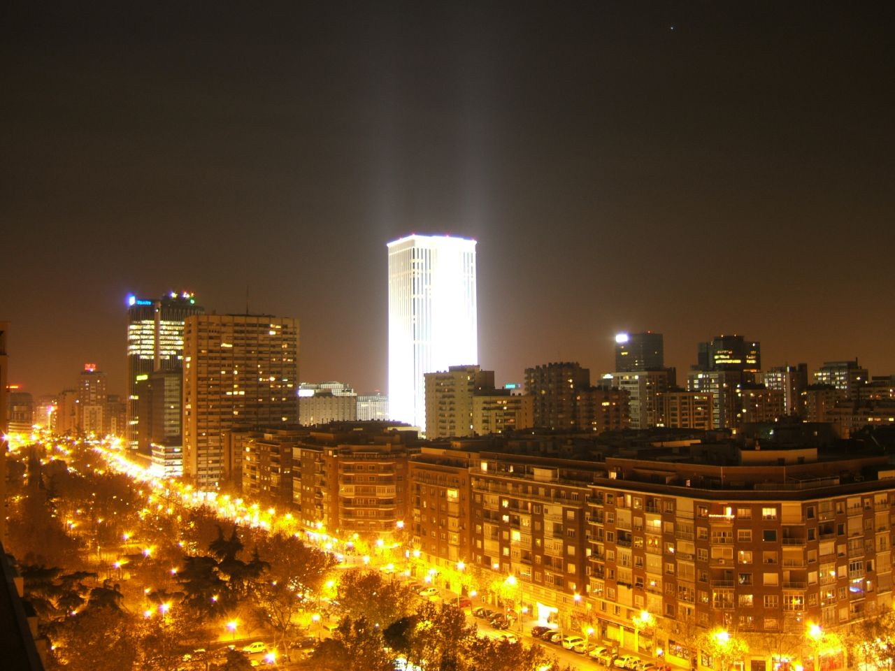 Night view of Madrid (Spain). Image taken from a building at Calle de Juan de Olías (street). In the background, AZCA business park, and in it, Torre Picasso (white lighting).